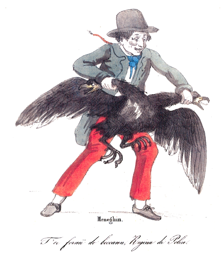 Meneghino kill the Austrian double-headed eagle after "Cinque giornate milanesi)